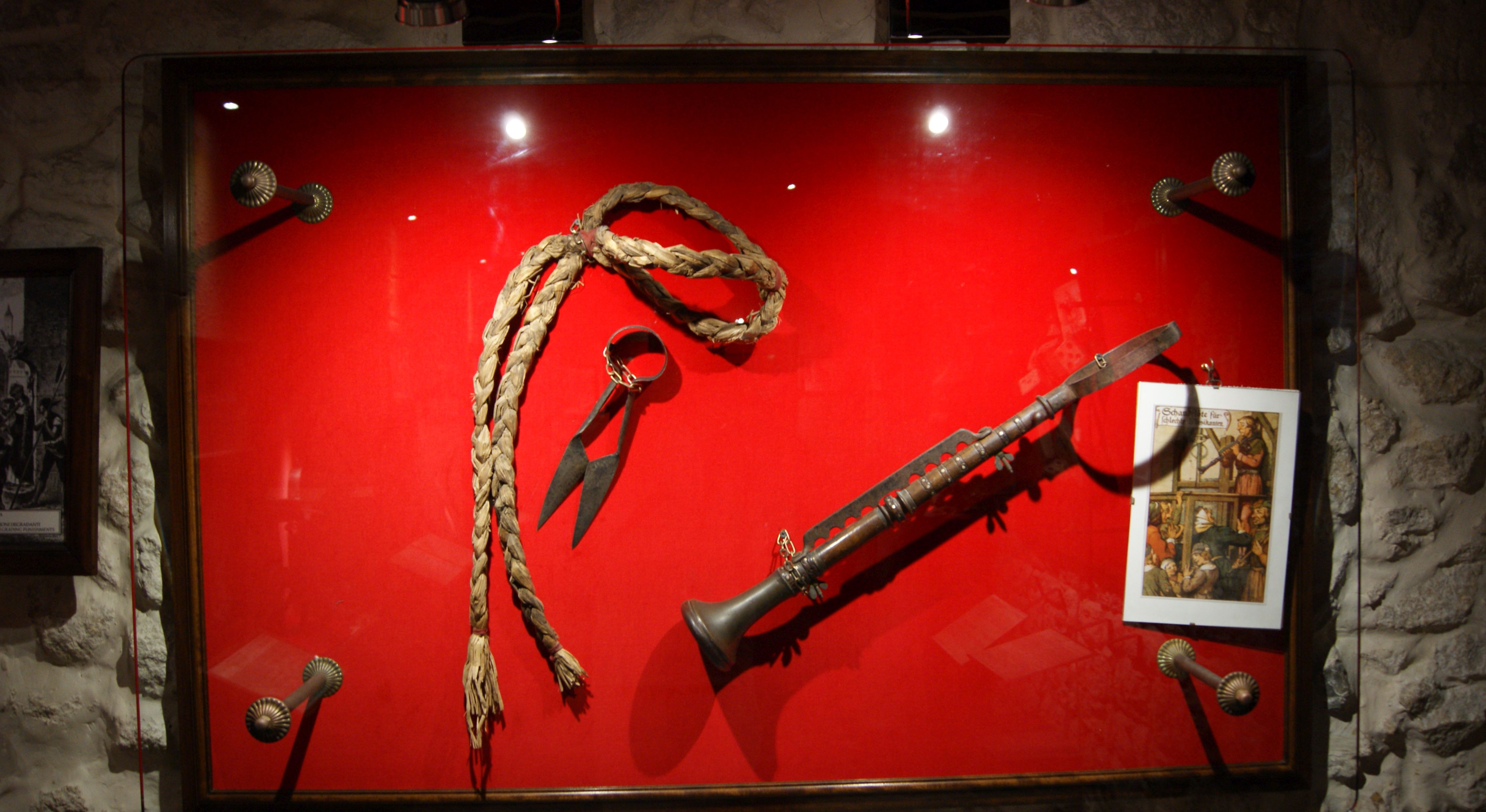 Torture Museum in San Marino. Torture instruments.